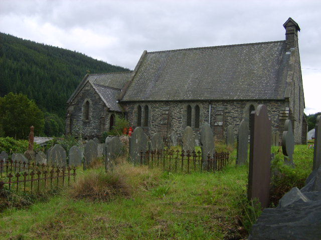 Holy Trinity, Corris Church and churchyard at Corris.